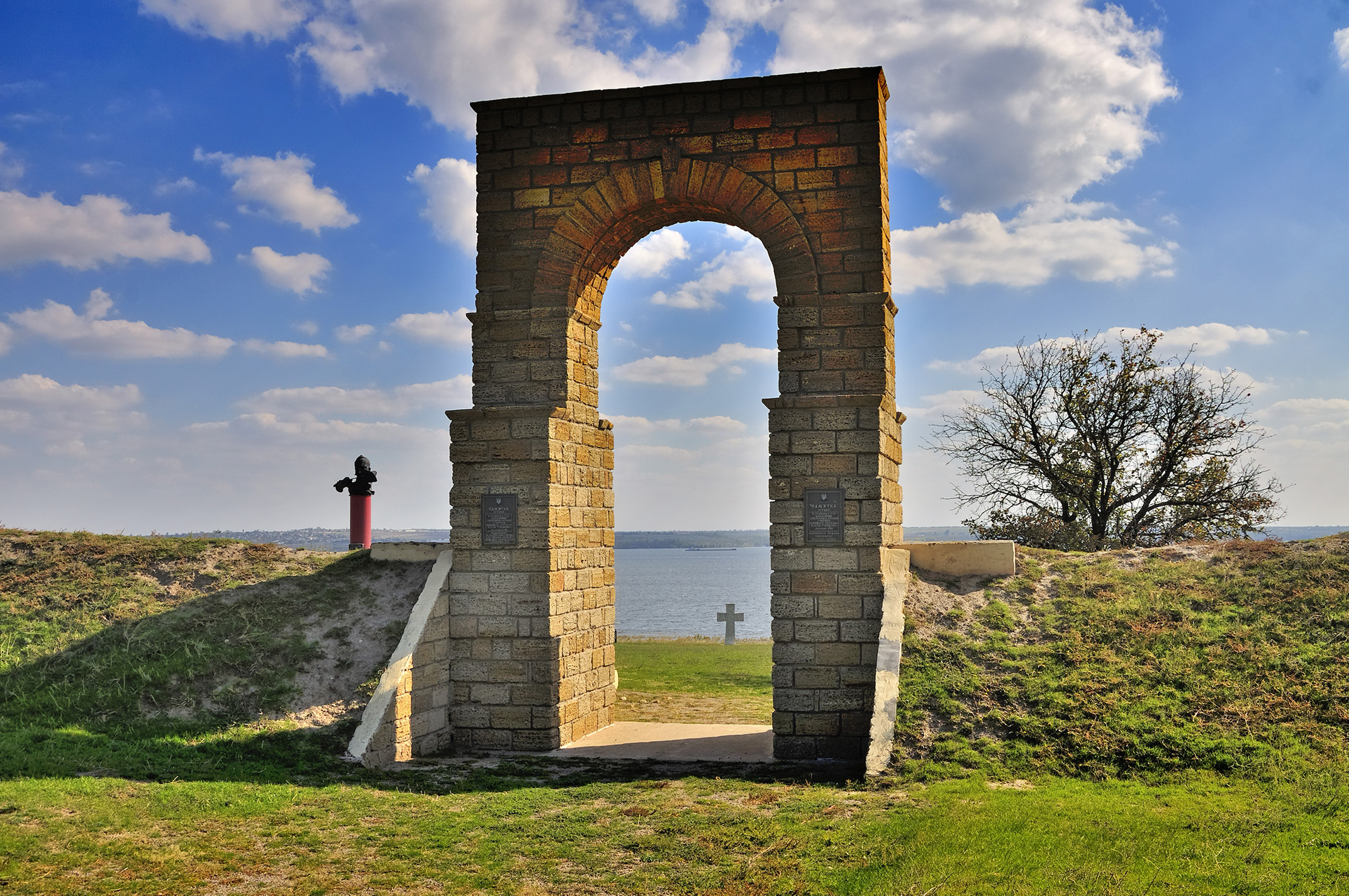 The territory of the former Kamianska Sich.